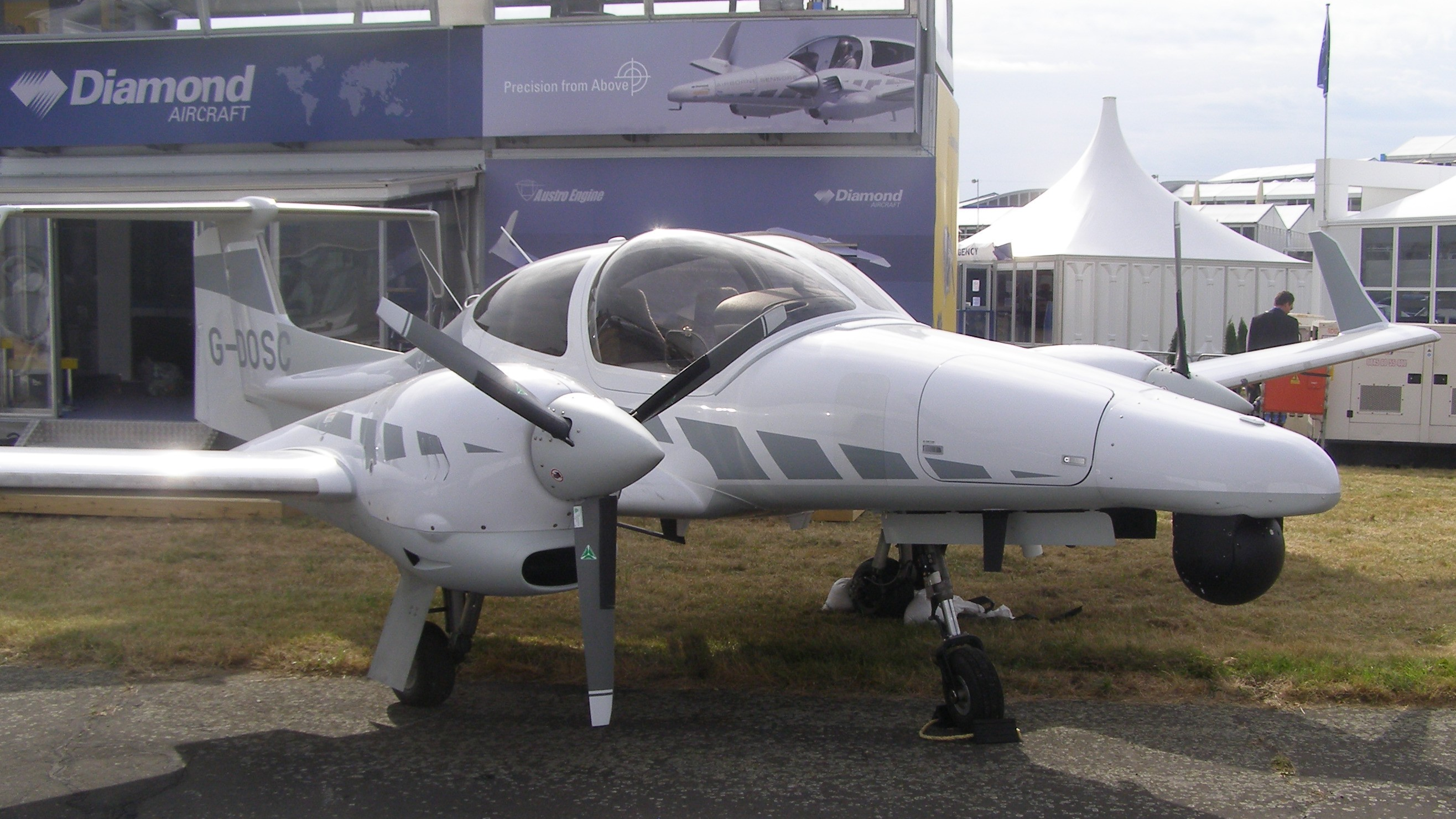 G-DOSC is a Diamond DA-42-MP on display at the 2010 Farnborough Airshow